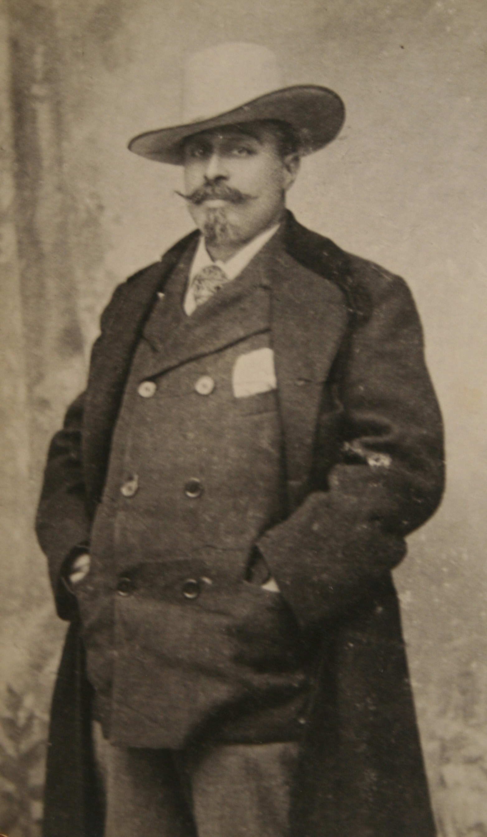 Portrait of the composer afroporteño Zenón Rolón